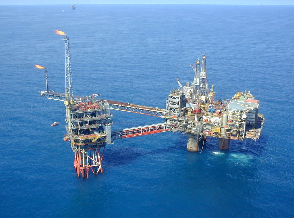 Exxon Mobile Oil Platform in the North Sea.Beryl Alpha